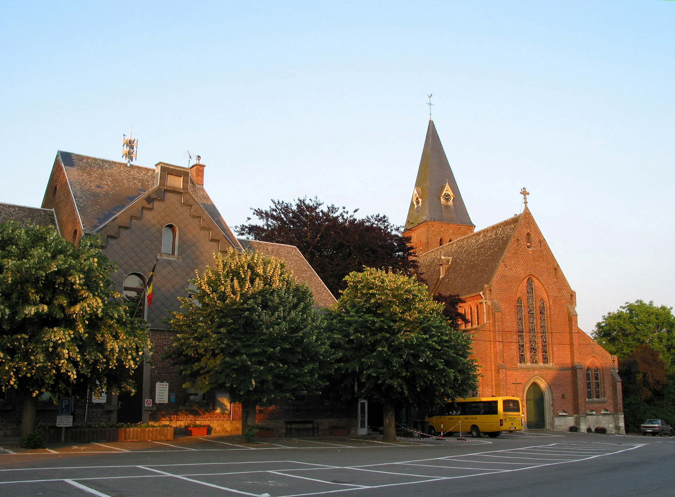 Ohey (Belgique), the town hall and the Saint Peter's church (1889-1890).